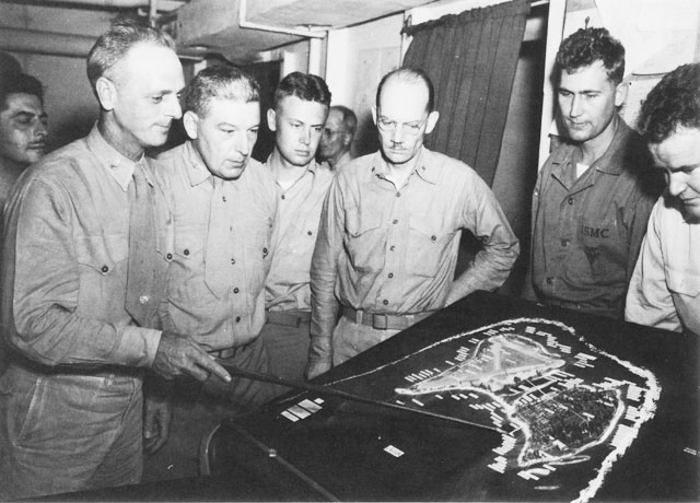 Caption: Col Franklin A. Hart, commander of the 24th Marines, briefs his staff on the operation plan for the invasion of Roi-Namur. To his left is his regimental executive officer, LtCol Homer L. Litzenberg, Jr. Both would retire as general officers. Author: Department of Defense Photo (USMC) 70490 URL: Source: Breaking the Outer Ring: Marine Landings in the Marshall Islands, Department of Defense Photo (USMC) 70490.